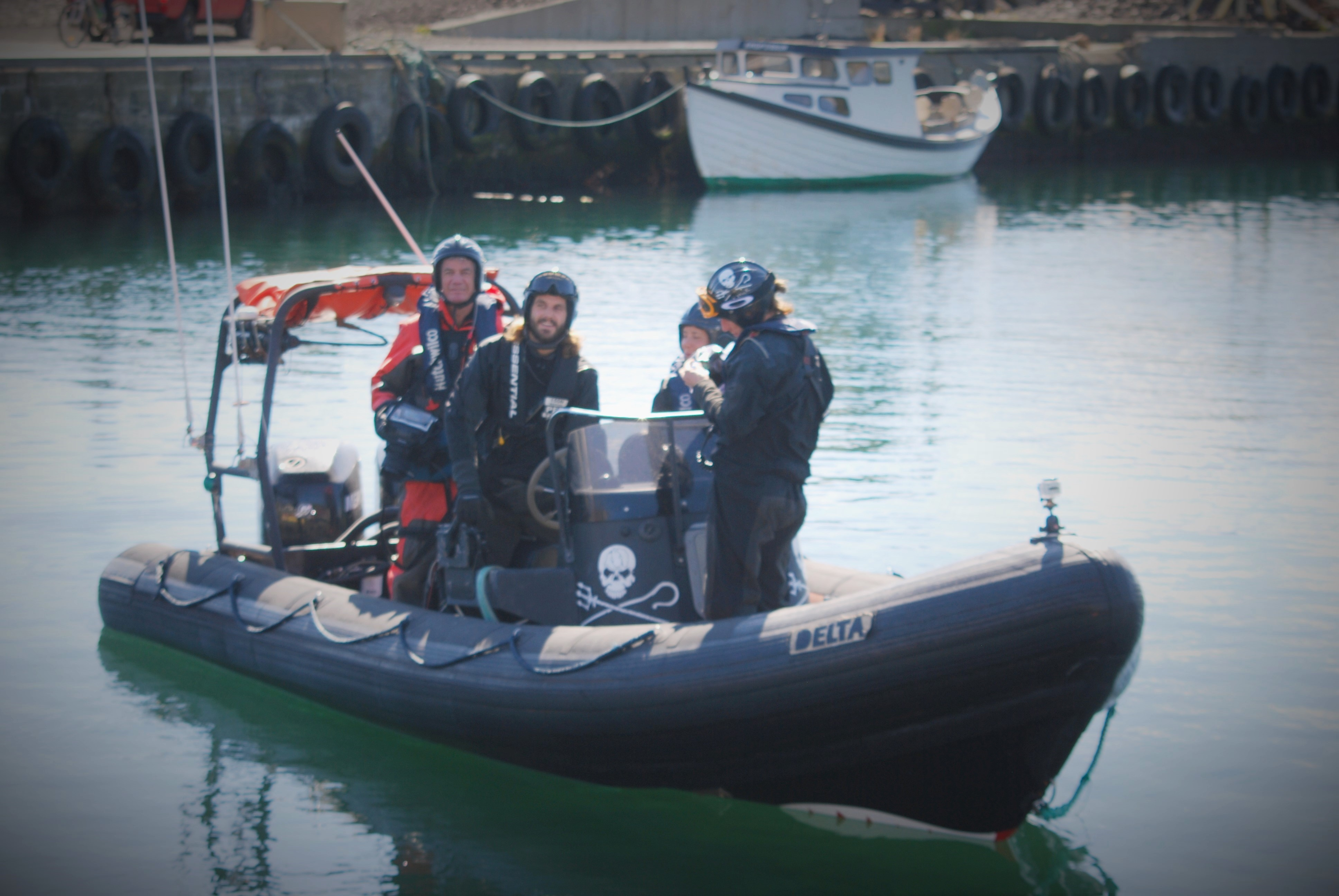 Visit in harbour of Porkeri, Suðuroy, Faroe Islands from Sea Shepherd Conservation Society